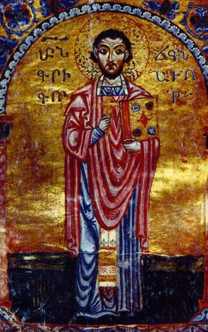 Grigor Narekatsi, Ms. 1568 (1173), Matenadaran, Yerevan, Armenia.